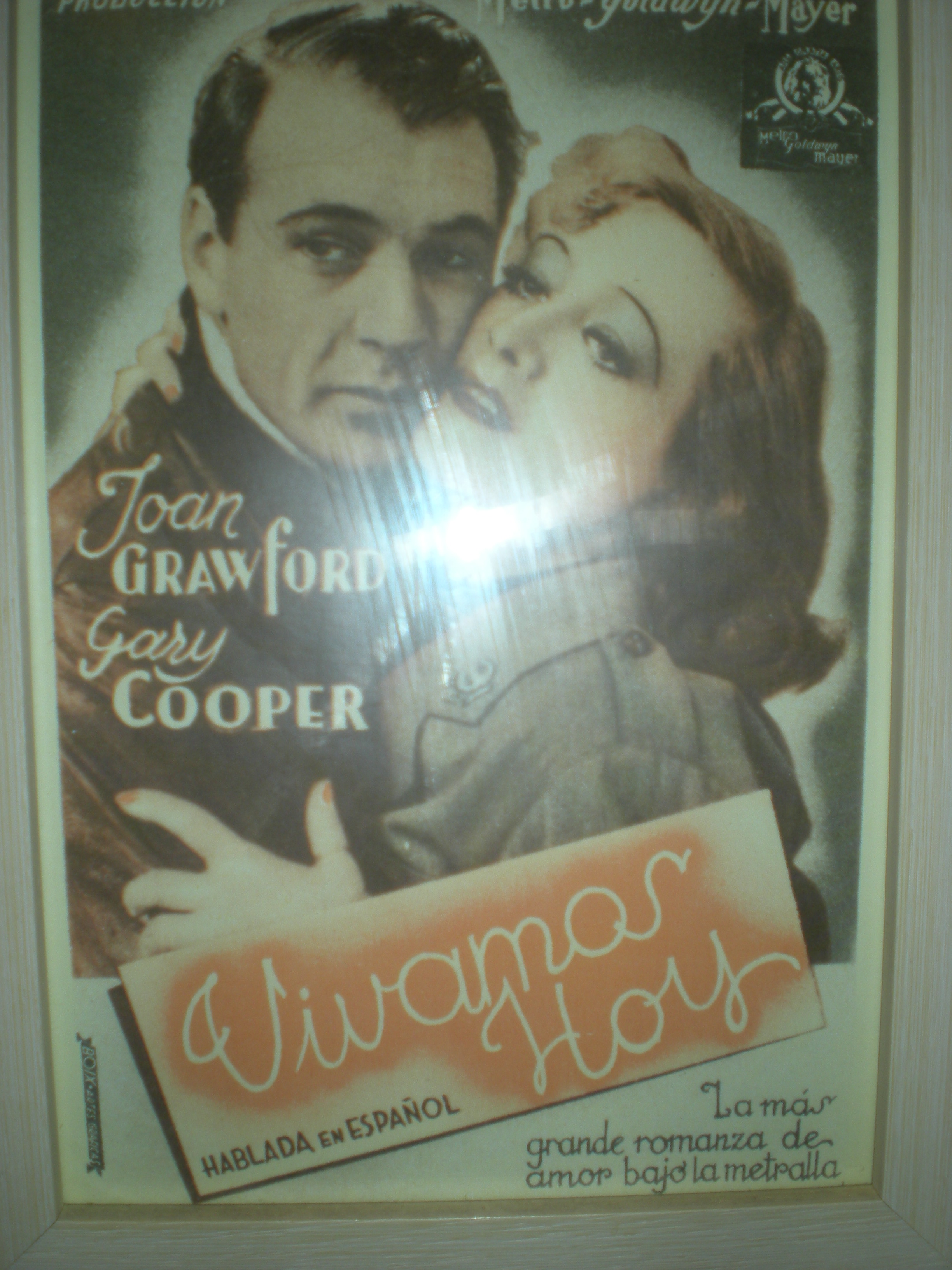 The poster of Vivamos hoy, the Spanish distribution title for Today We Live (1933).